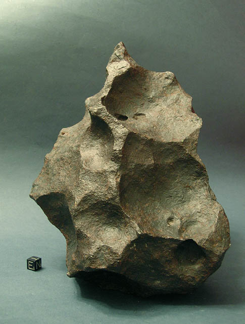 14.69kg meteoritic iron from Gibeon, Great Nama Land, Namibia